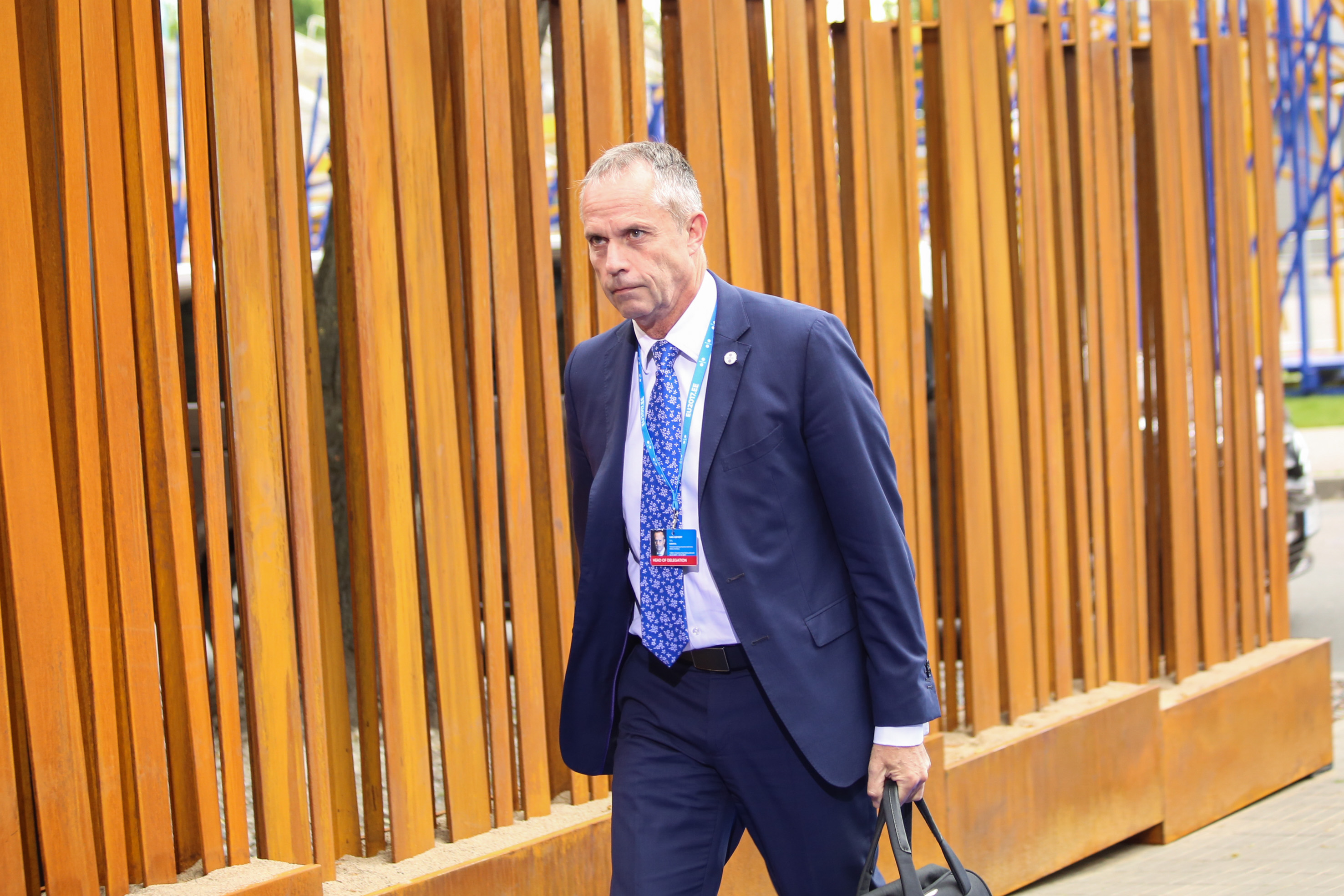 Wil van Gemert, Deputy Executive Director, Europol. Informal meeting of justice and home affairs ministers